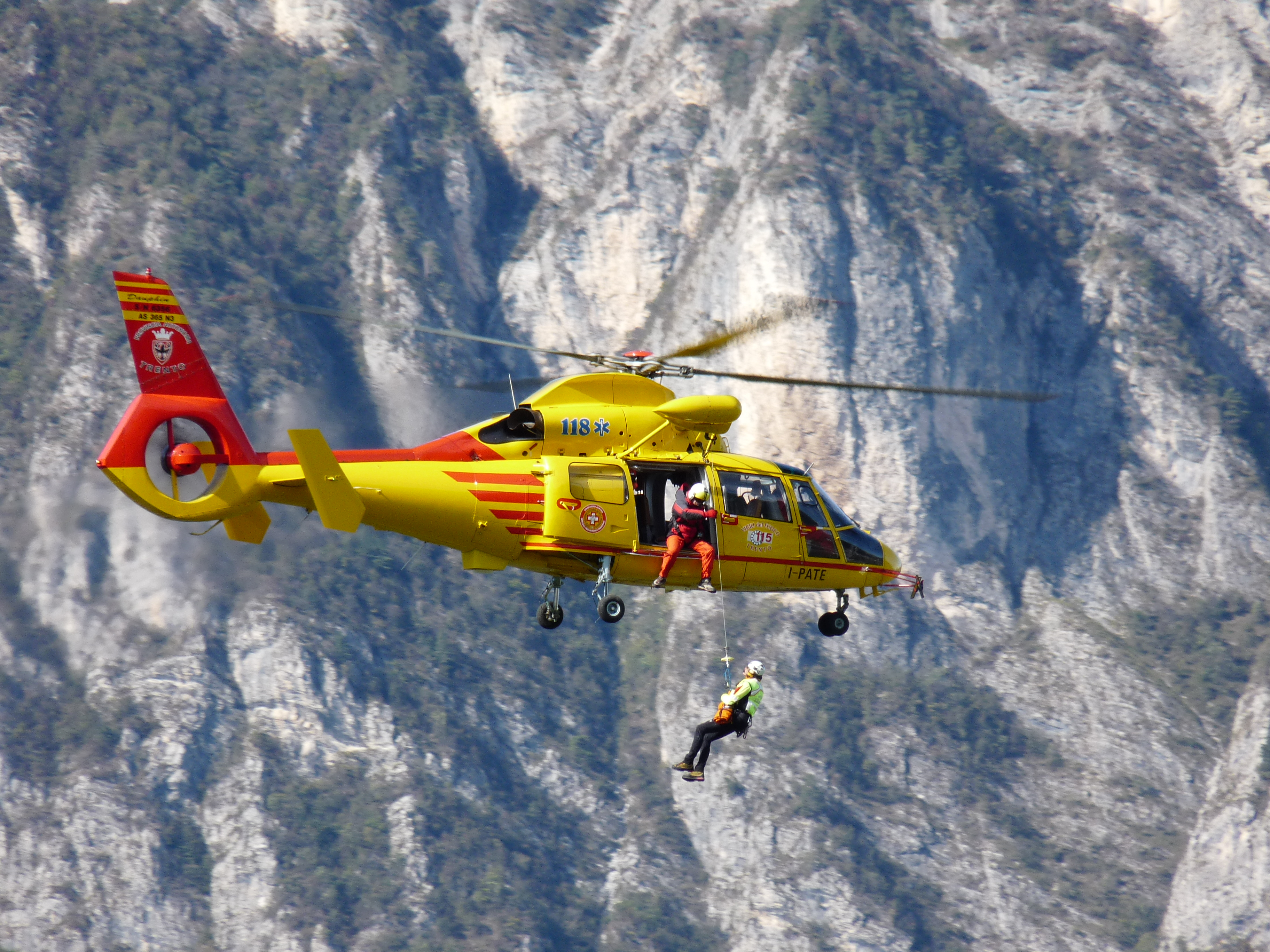 Trento (Italy): the I-PATE air ambulance in a simulated rescue mission during the celebration of the 50th anniversary of the Nucleo Elicotteri (helicopters team) of the fire department of the Province of Trento